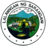 Provincial seal of Sarangani, Philippines.